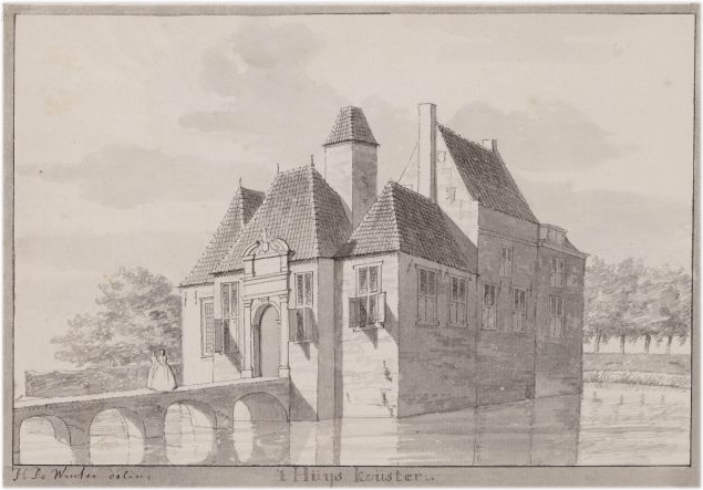 "'t Huys Kouster" Castle Coulster at Heiloo, Netherlands